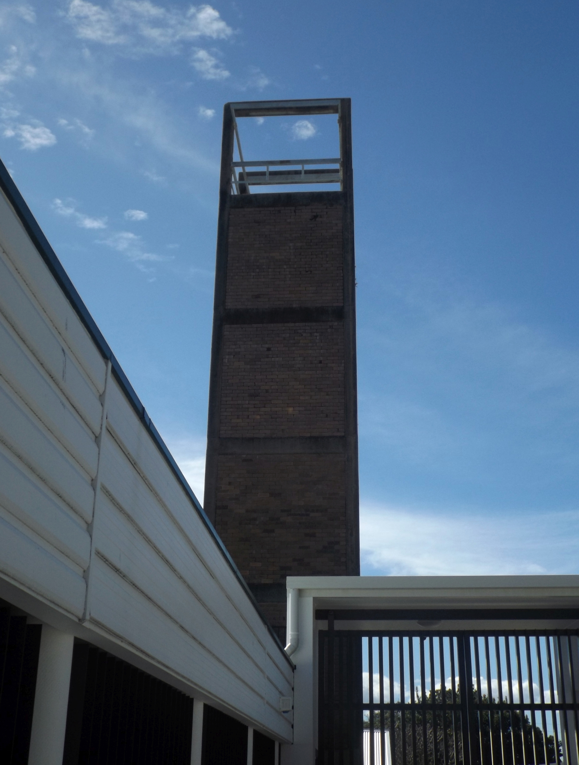 Photo of the Training tower at former Redcliffe Fire Station at Redcliffe, Moreton Bay Region, Queensland, Australia.